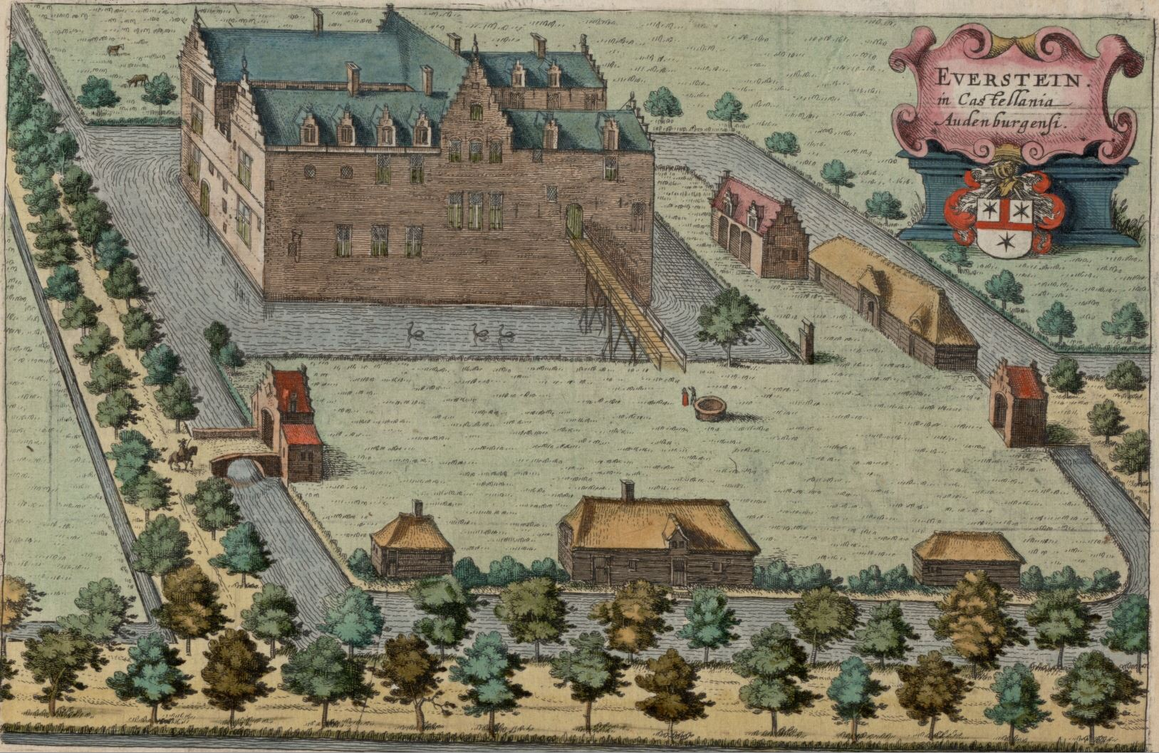 Everstein Wondelgem Sanderus kleur